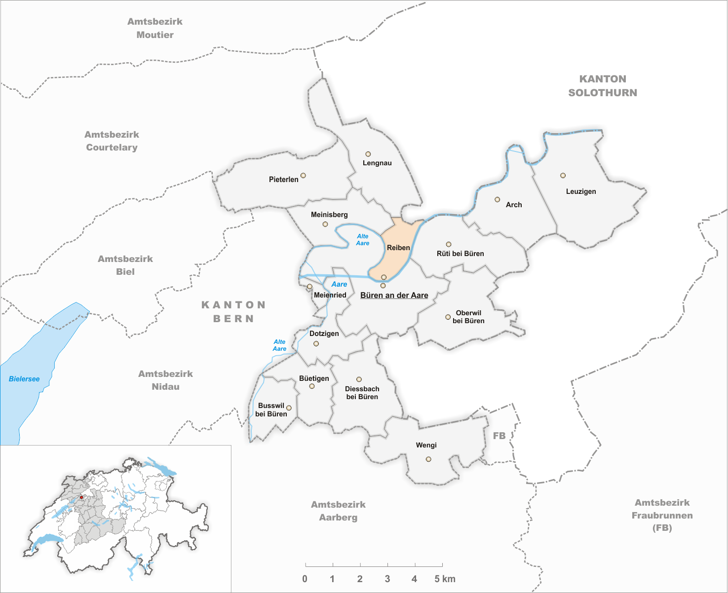 Municipality Reiben